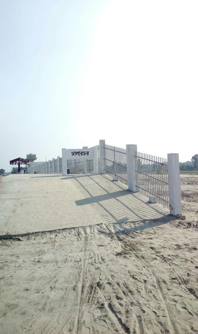 Dhalarchar